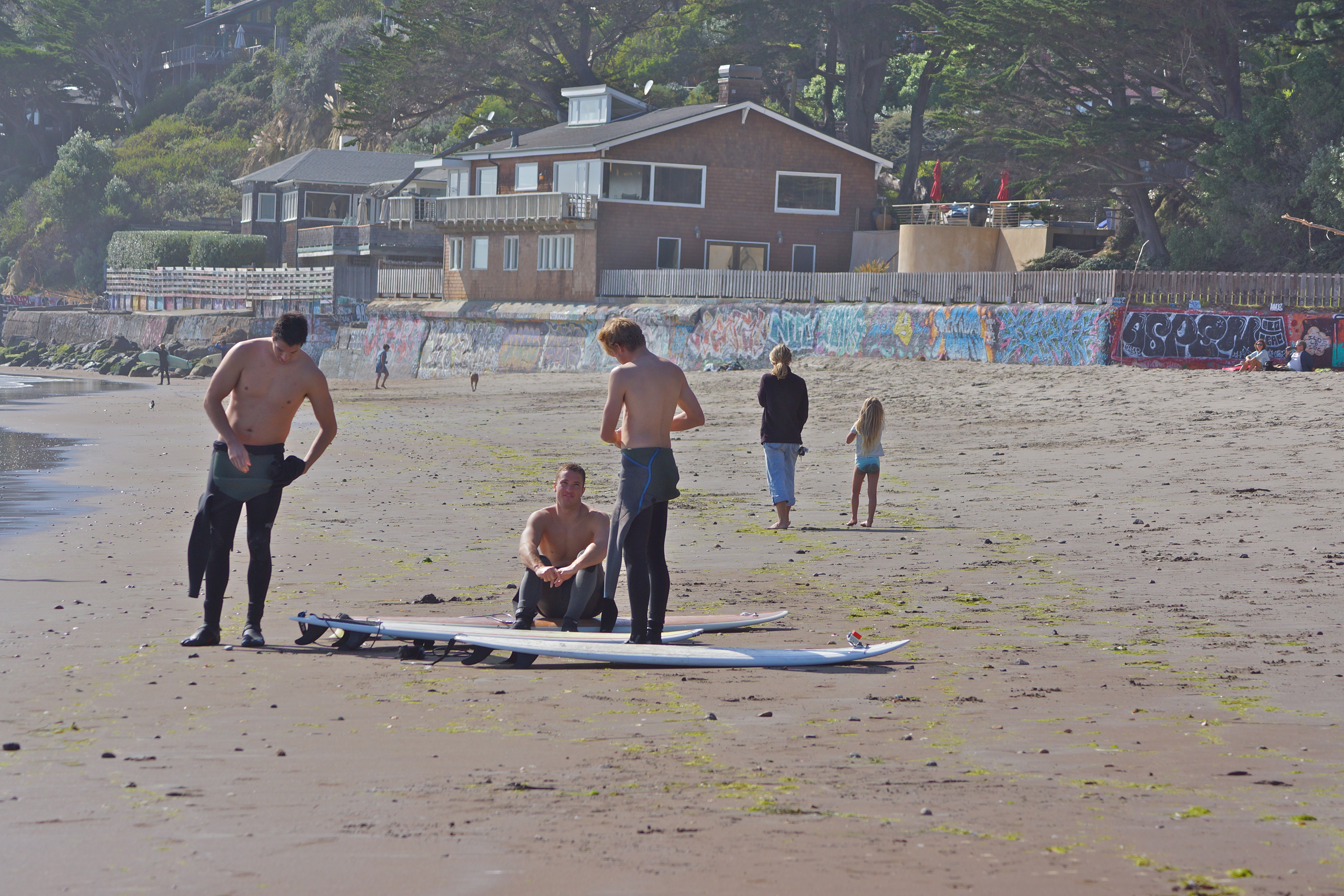 California (Bolinas), United States: Surfers at the Beach at low tide